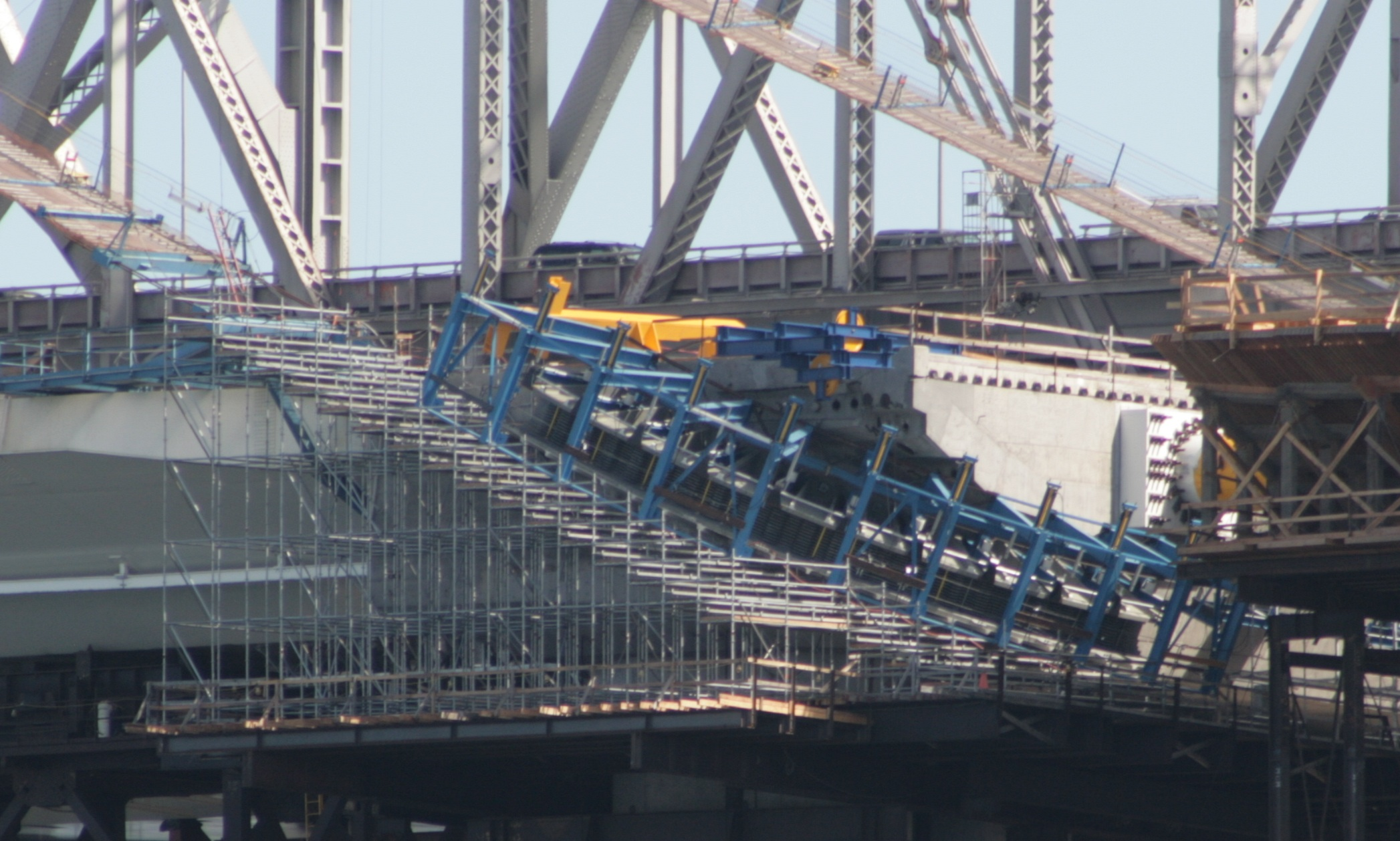 San Francisco - Oakland Bay Bridge (eastern span replacement construction). The blue cage contains tracks to guide the traveler around the northwestern deviation saddle.